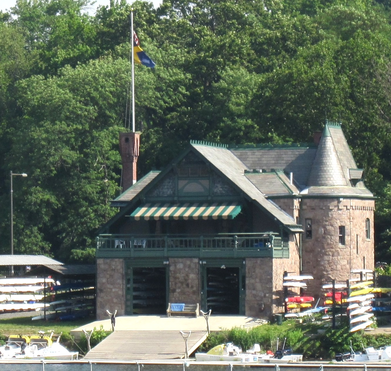 Undine Barge Club, #13 Boathouse Row, Philadelphia, PA (1871-1892)